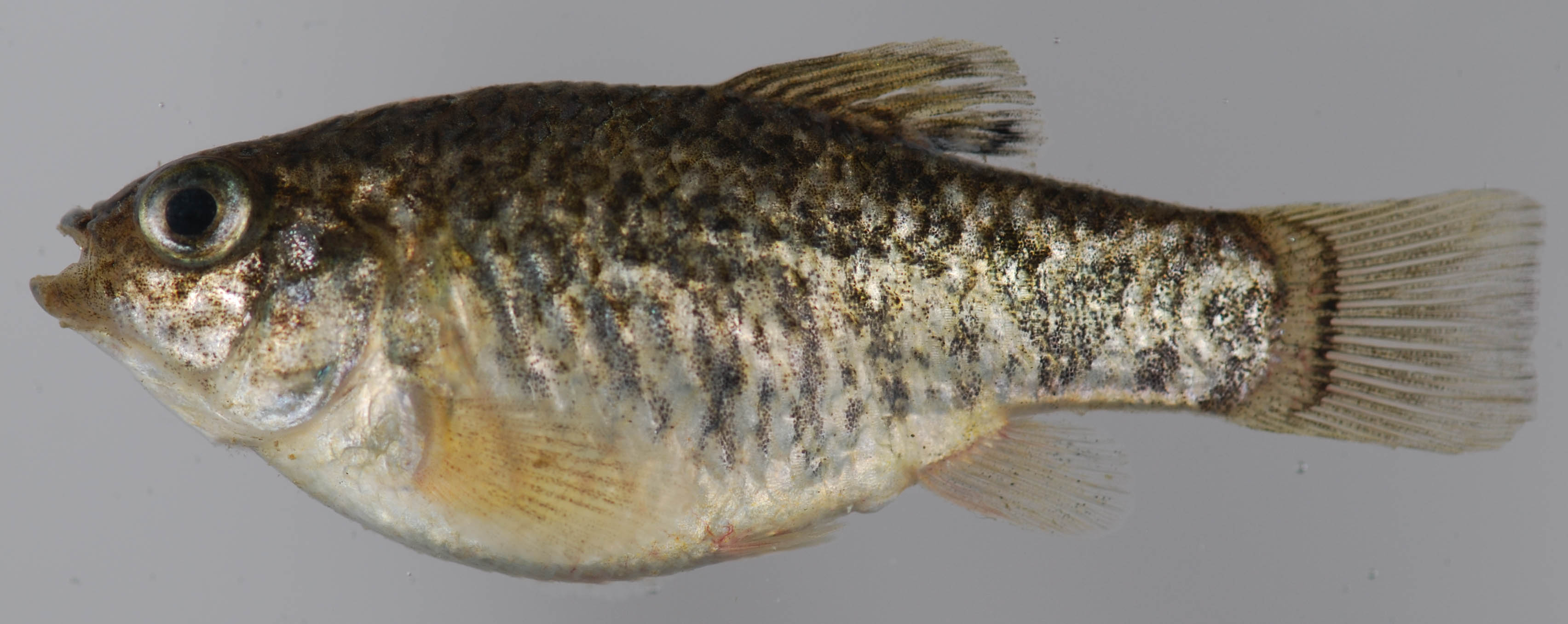 sheepshead minnow, Cyprinodon variegatus, 45mm SL, Muddy Creek Fish Weir, Rhode River, SERC, Anne Arundel County, MD - 10/15/11. Photo by Robert Aguilar, Smithsonian Environmental Research Center.